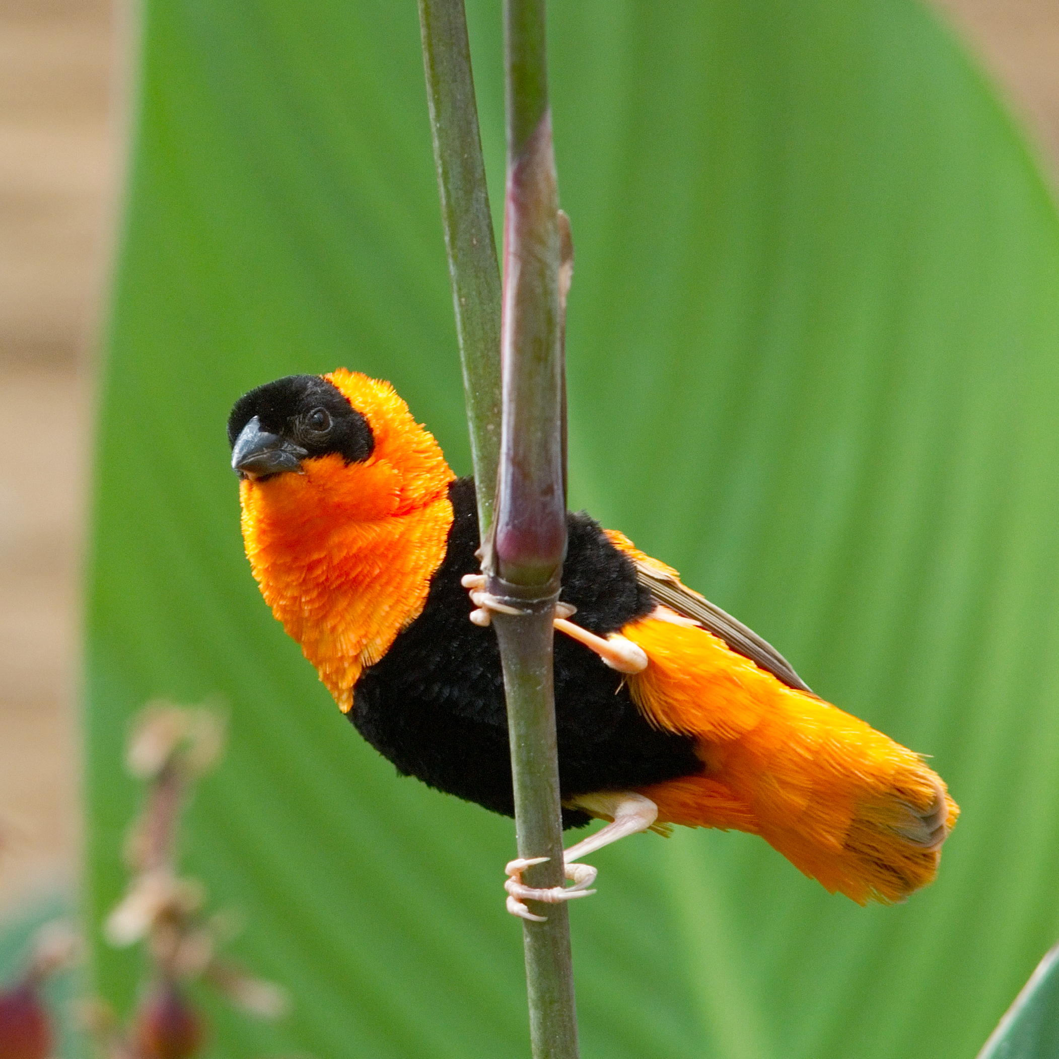 Euplectes franciscanus Northern Red Bishop